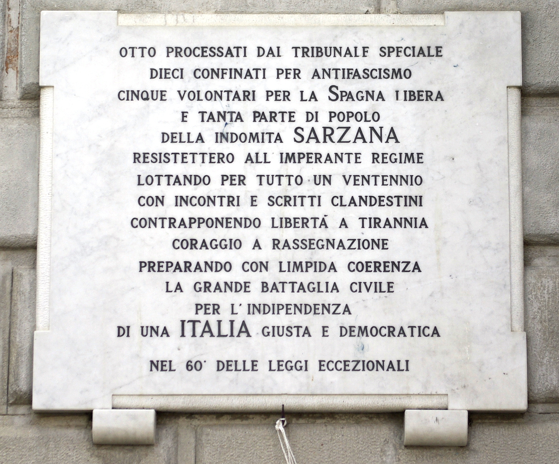 Stone in Sarzana remembering antifascist